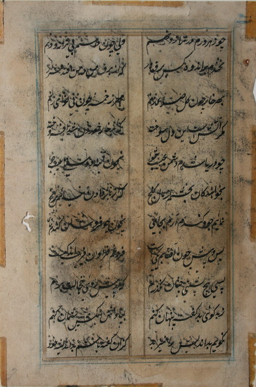 The text of Mah laqa bai, Hyderabad India.